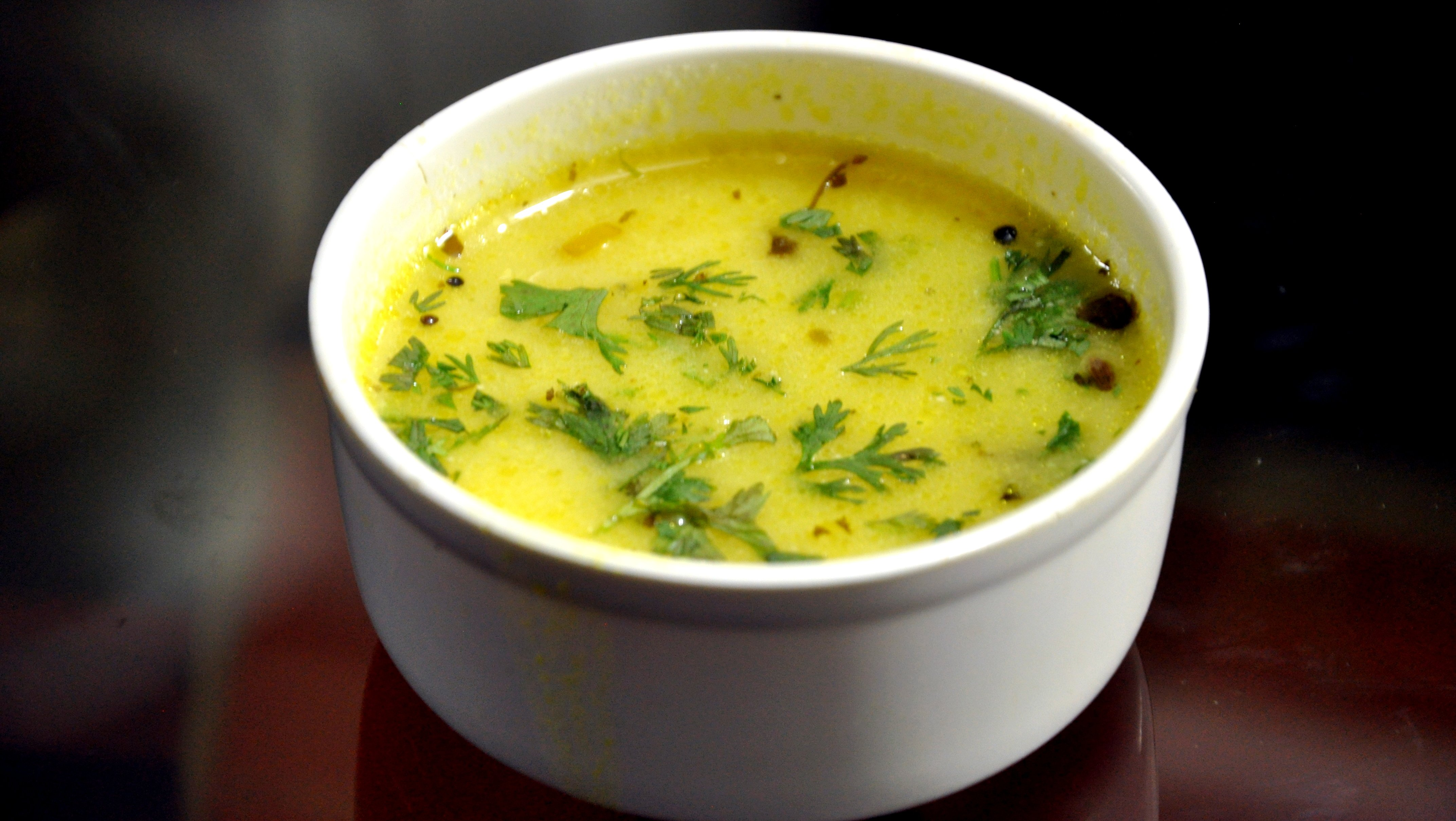 {Wiki Loves Food 2015 }